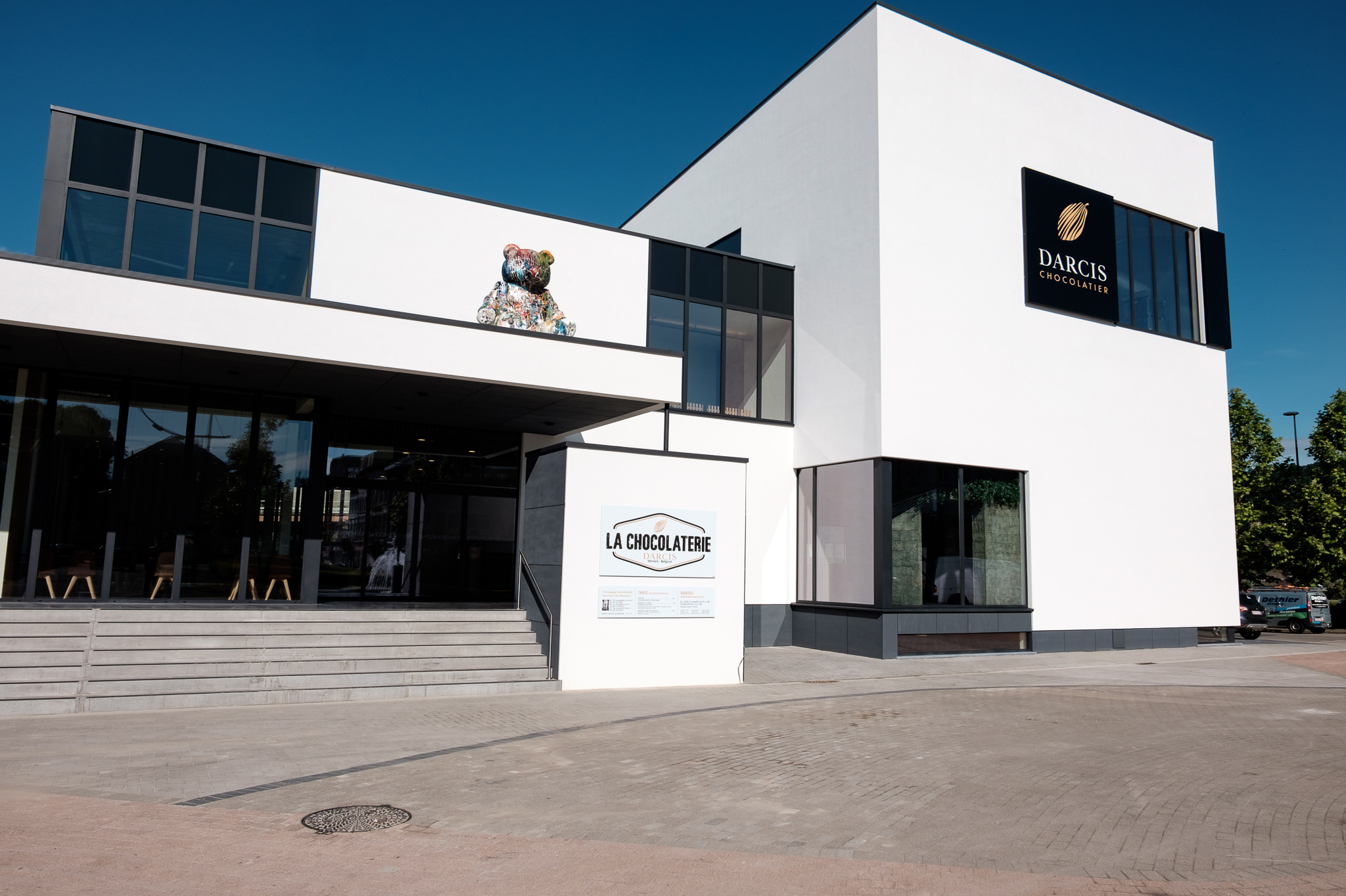 Darcis Headquarters Verviers, Belgium